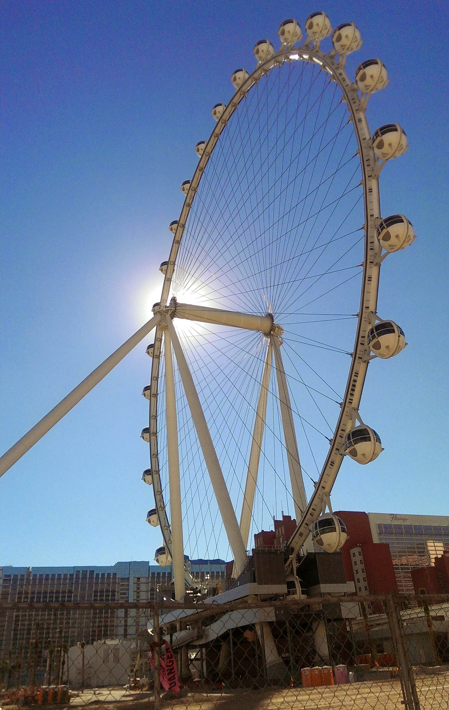 The High Roller Las Vegas, NV, USA 2014-01-25